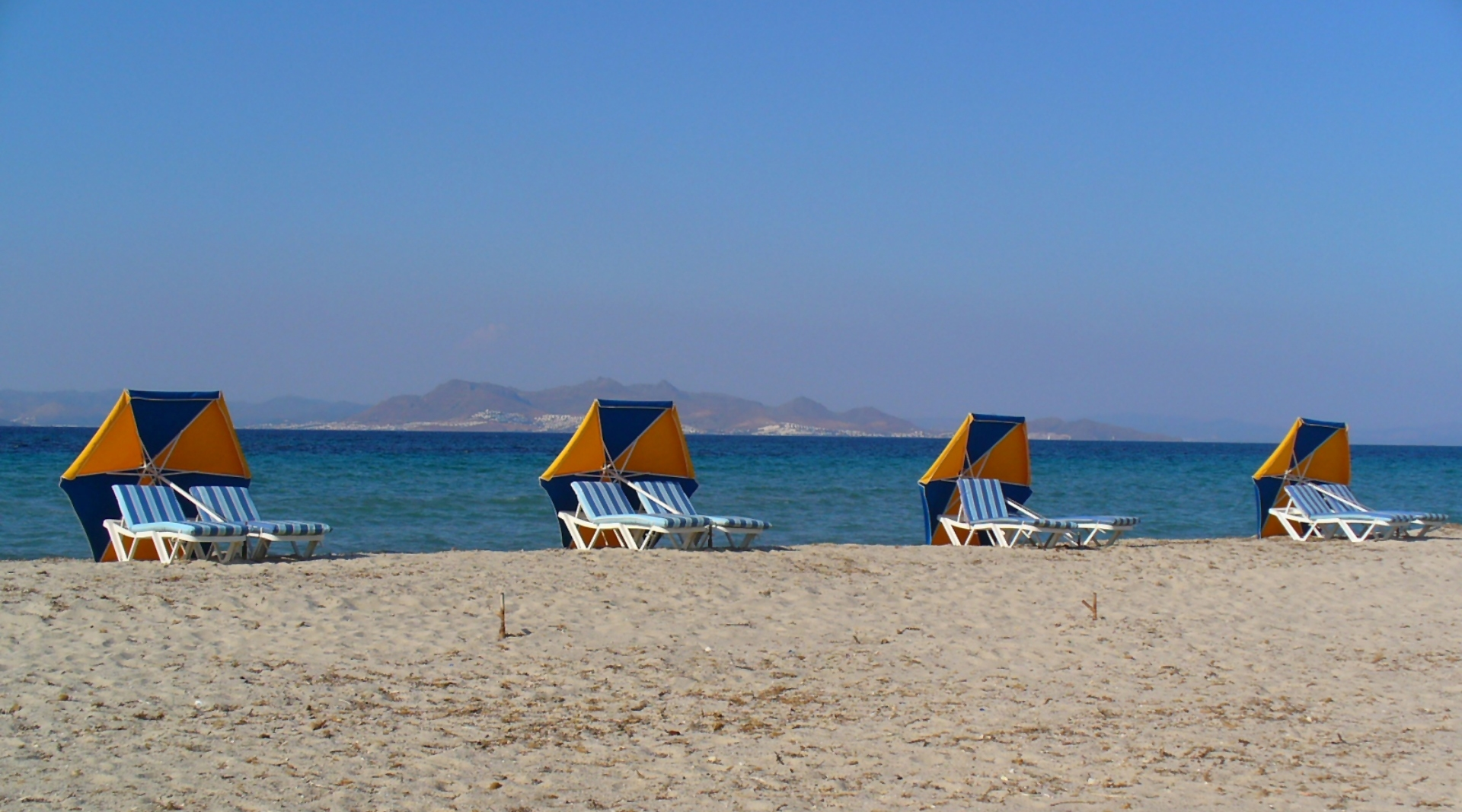 Island of Kos, Greece, Beach near Tigkaki / Tigaki in the evening